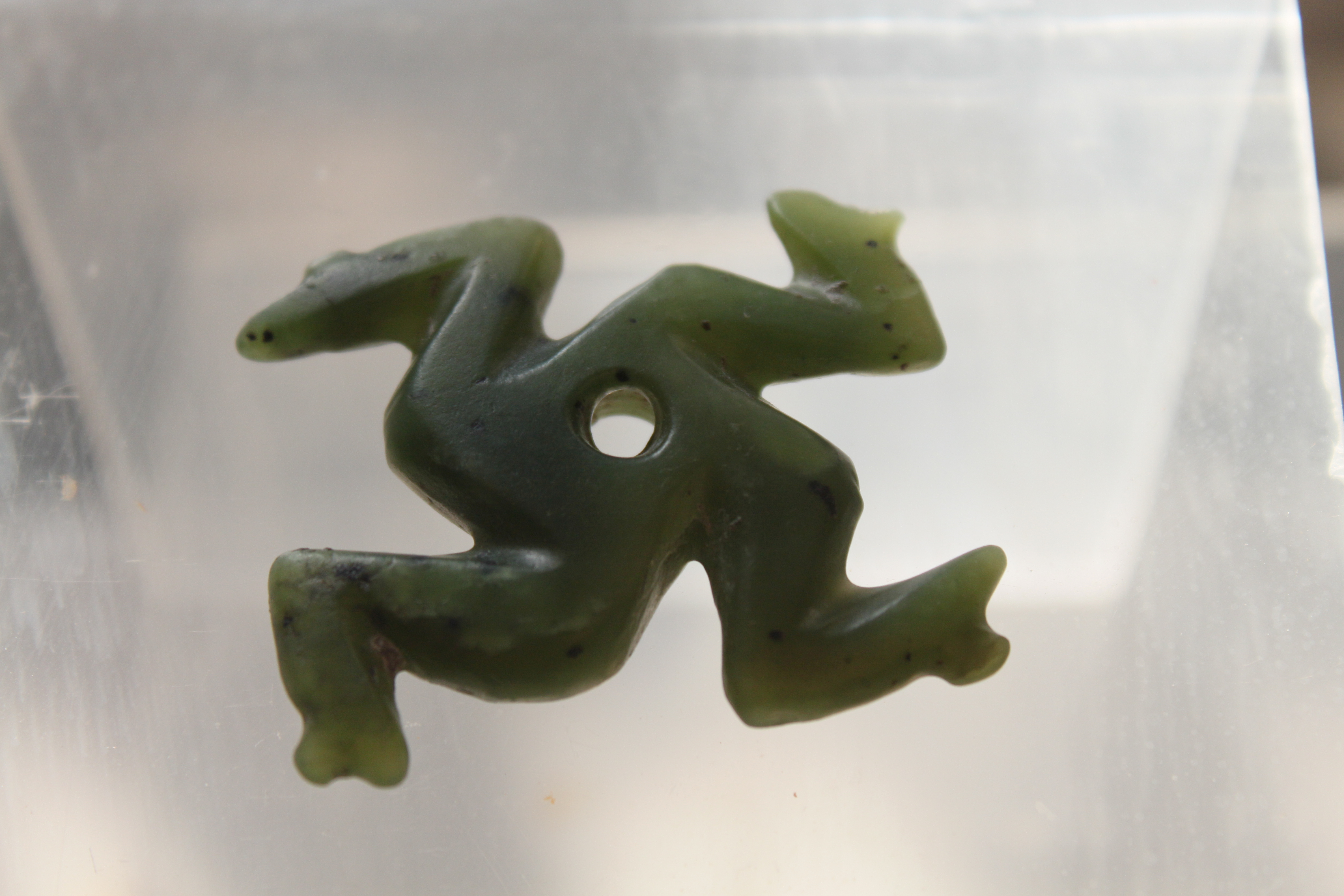 Kardzhali Museum of History, Kardzhali , Bulgaria ; -- Nephrite Swastika, 6000 BC